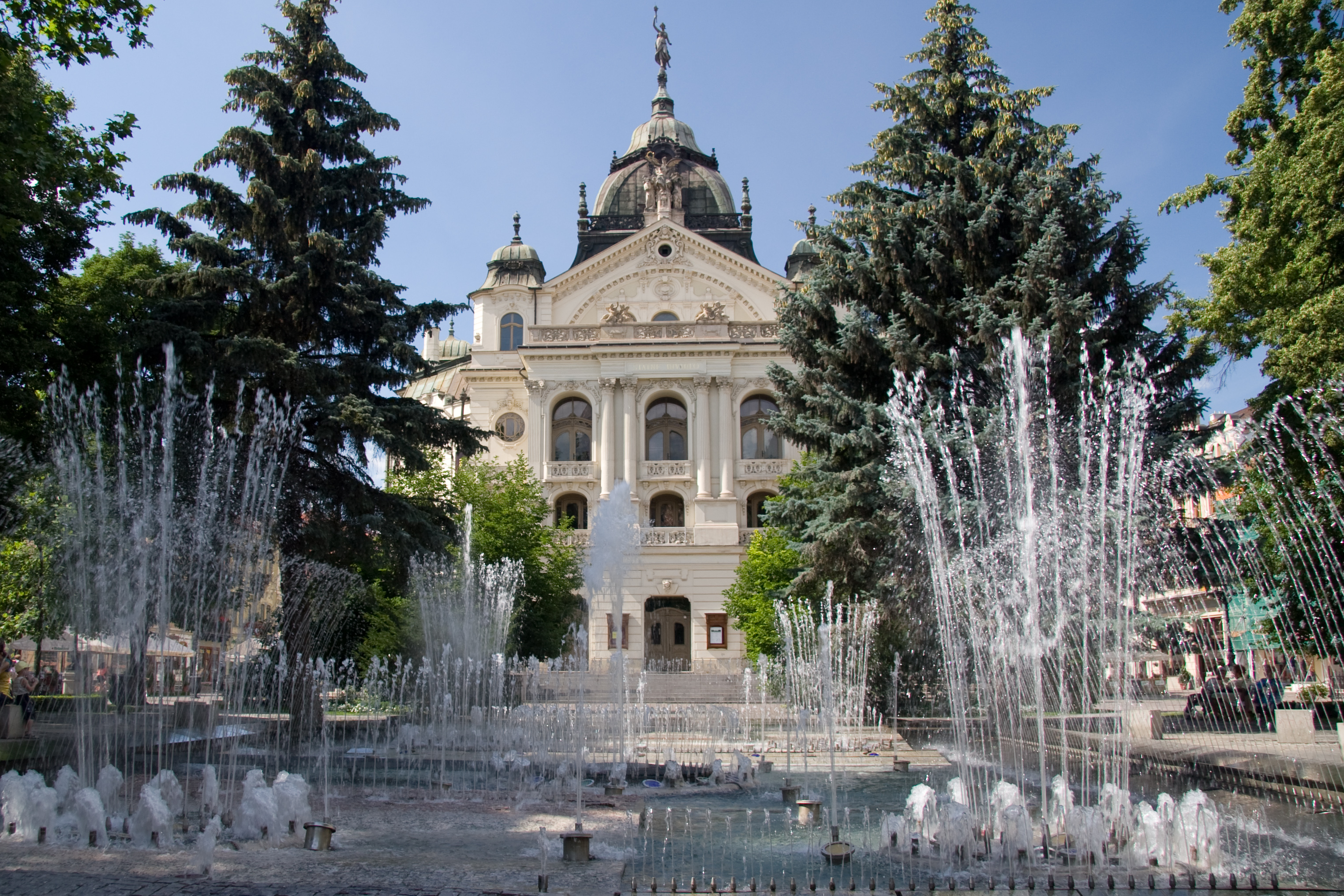 State Theatre with Fountain, Košice, Slovakia